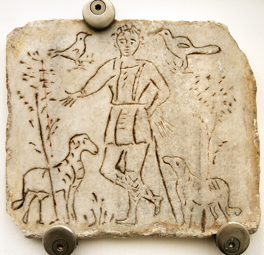 4th century depiction of Christ as the Good Shepherd, Museum for Epigraphy, Terme di Diocleziano, Rome